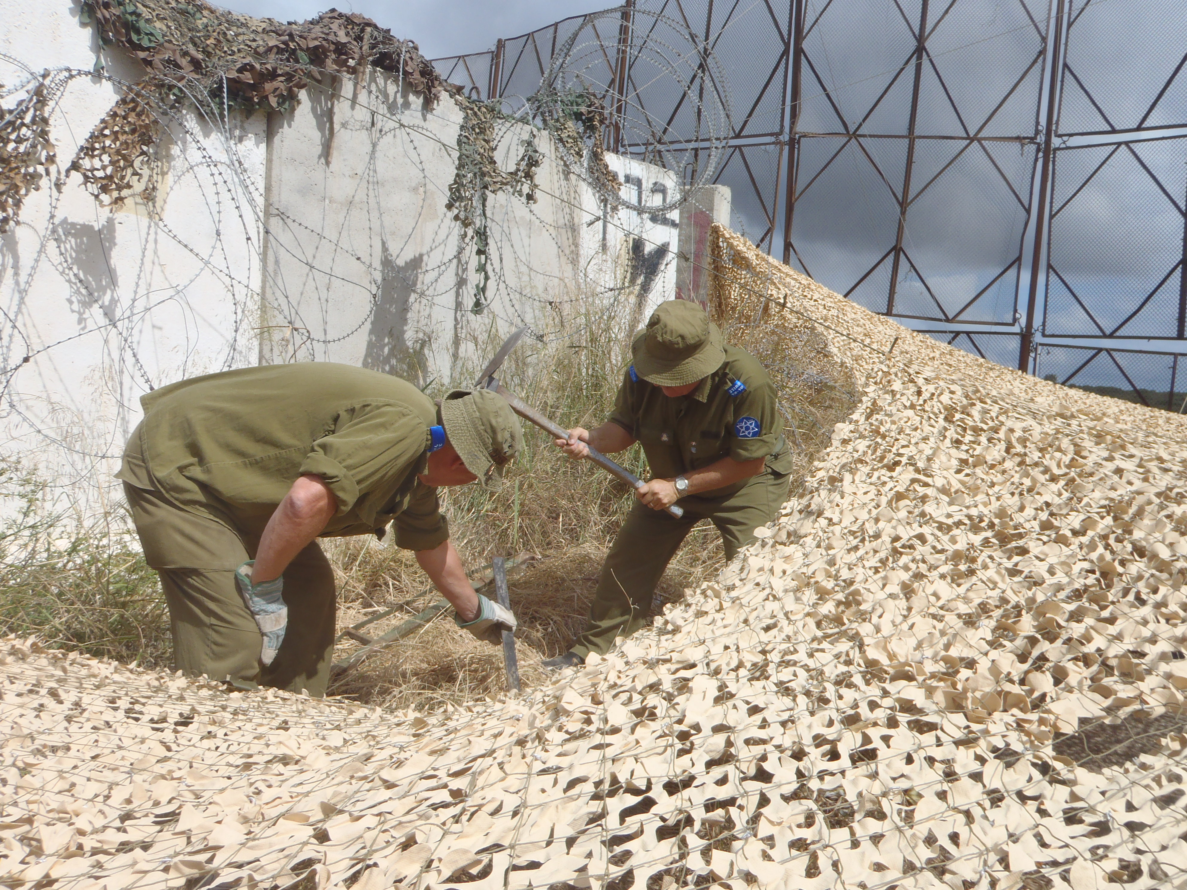 Sar-El, a project which enables people from all over the world to volunteer in the IDF for a few months, usually involved technical or logistic duties. Not for these brave volunteers--who insisted on doing harsh physical work and helping the troops right at the Lebanon border! The Israel Defense Forces Facebook The Israel Defense Forces blog The Israel Defense Forces website The Israel Defense Forces Twitter